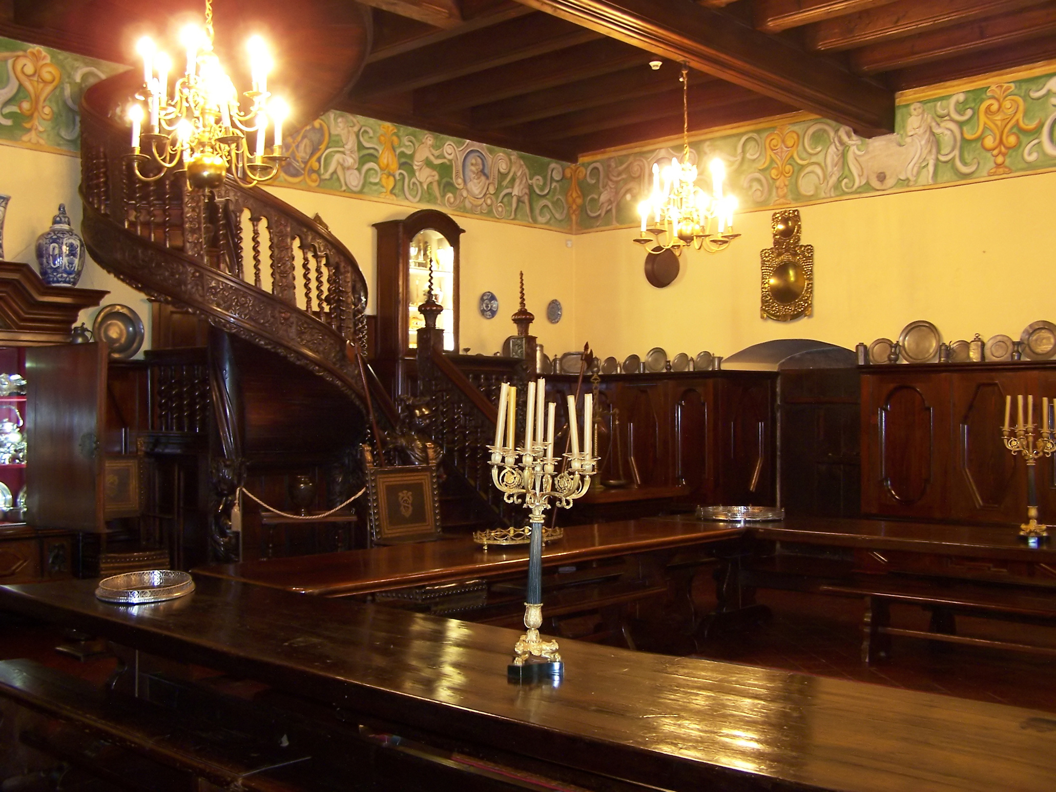 Stuba Communis, Collegium Maius, Krakow.